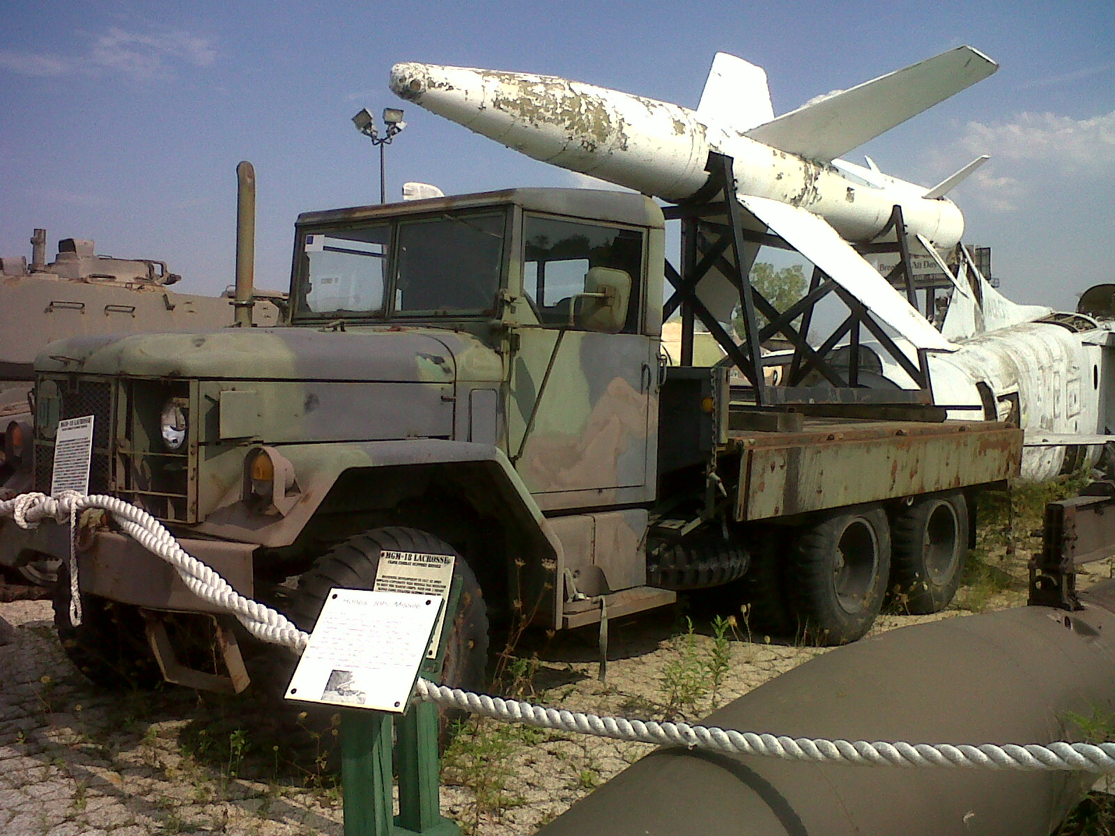 MGM18 Lacrosse, taken at the Russell Military Museum